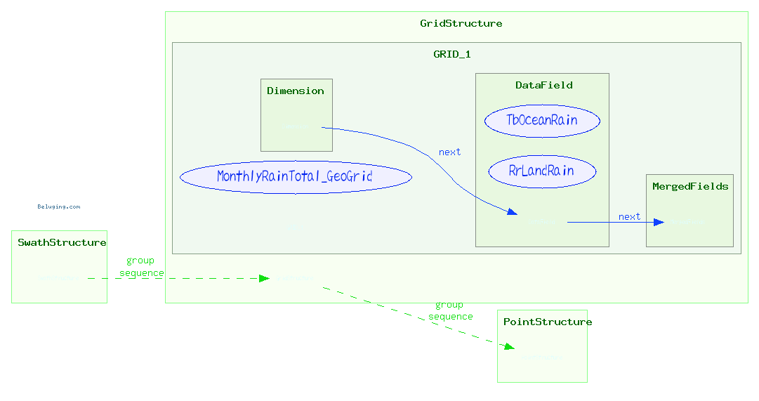 NASA HDF-EOS file example, its structure generated and shown online as CreativeCommons at